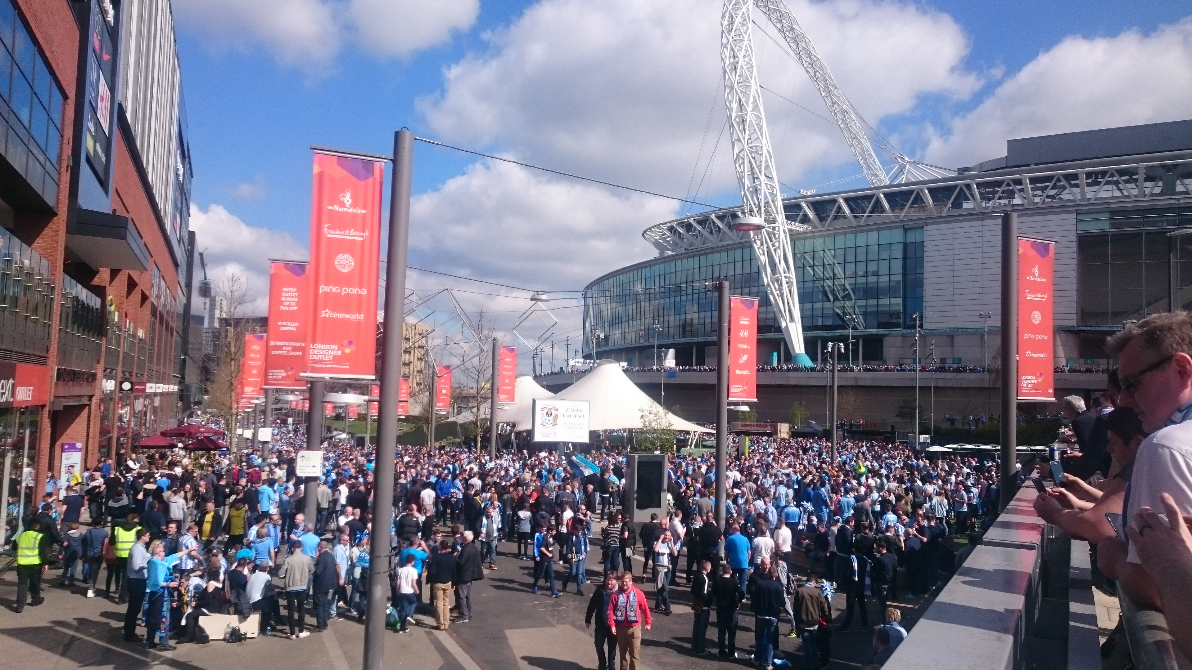 Outside Wembley stadium prior to the EFL Trophy final 2017 between Coventry City and Oxford United